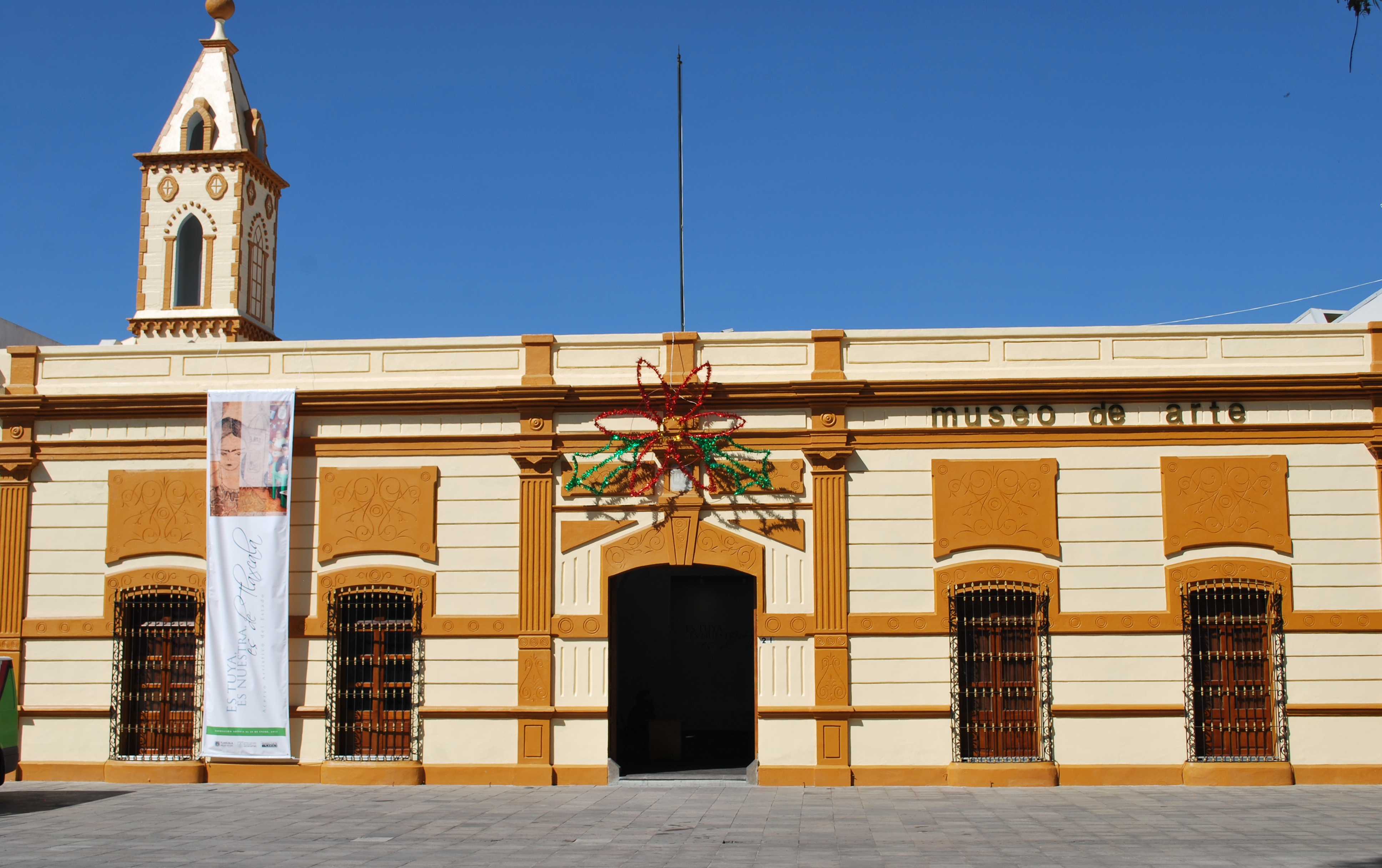 Tlaxcala Art Musueum